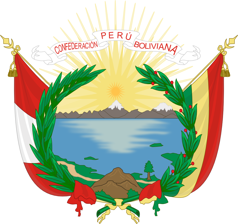 Emblem of Peru–Bolivian Confederation